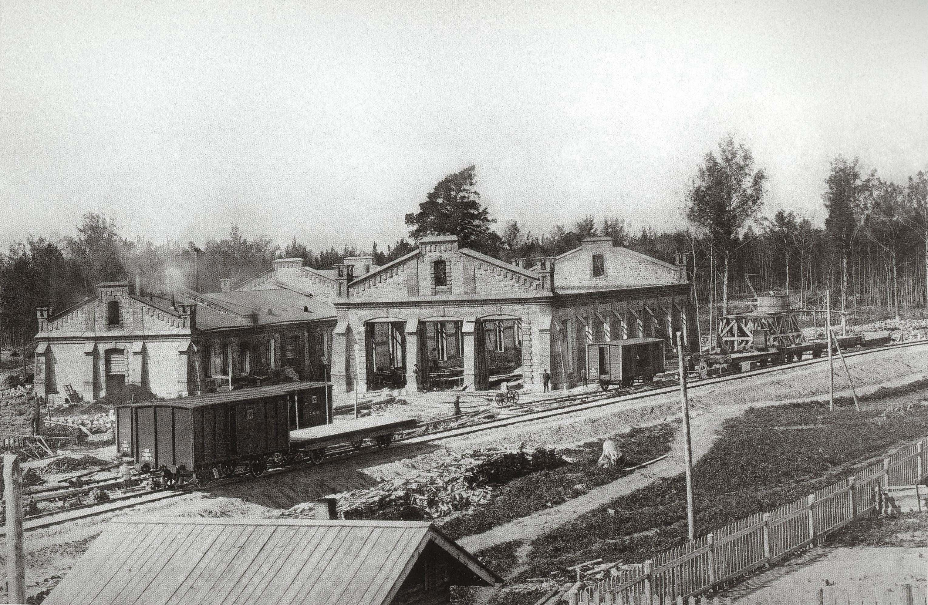 Steam locomotive depot of Ob Station in the 1890s.